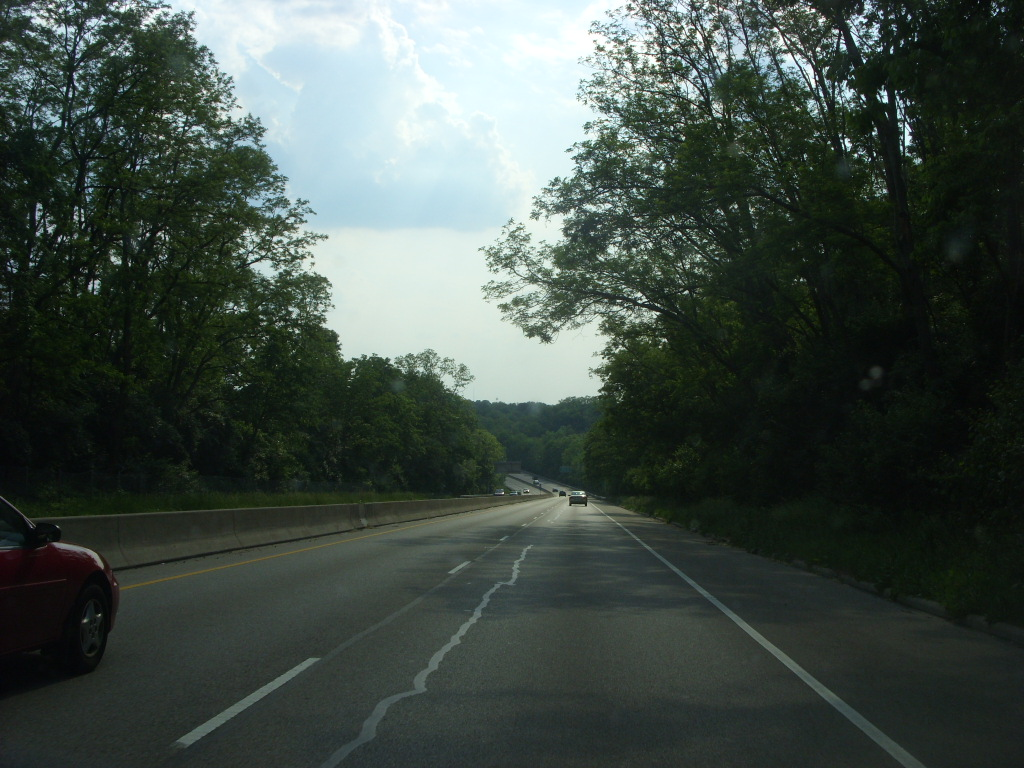 Ronald Reagan Cross County Highway near Rossmoyne Creek and the borders of Blue Ash, Reading, Amberley Village, and Sycamore Township in Hamilton County, Ohio, United States.